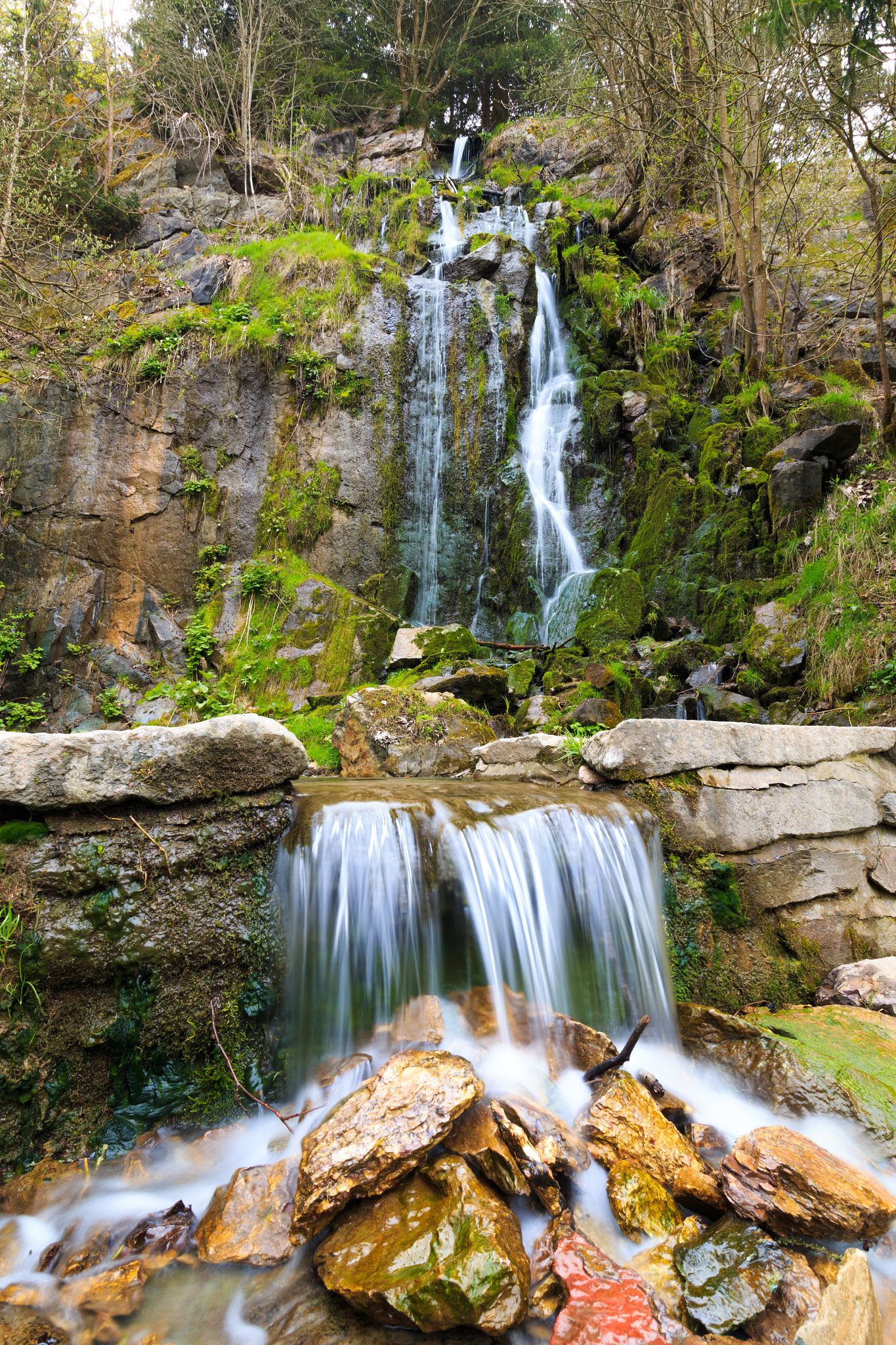 500px provided description: Königshütter Wasserfall [#water ,#river ,#rock ,#fall ,#splash ,#stone ,#waterfall ,#cascade ,#flow ,#wet]